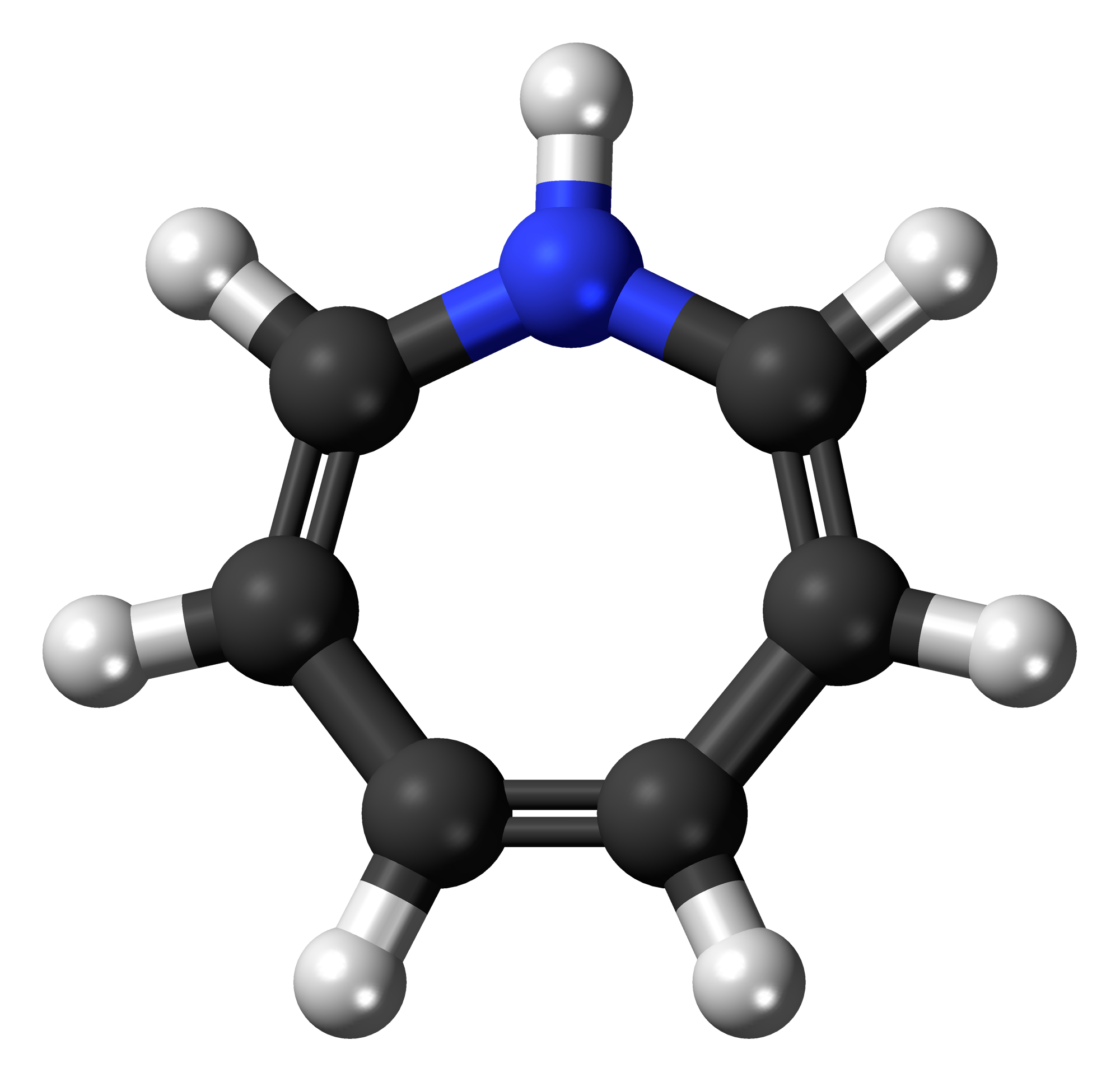 Ball-and-stick model of the azepine molecule, a nitrogen heterocycle. Colour code: Carbon, C: black Hydrogen, H: white Nitrogen, N: blue